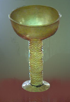 Golden goblet; found in the royal tombs in Alacahöyük; 2300-2000 BC; product of Hattian art; Museum of Anatolian Civilizations, Ankara, Turkey